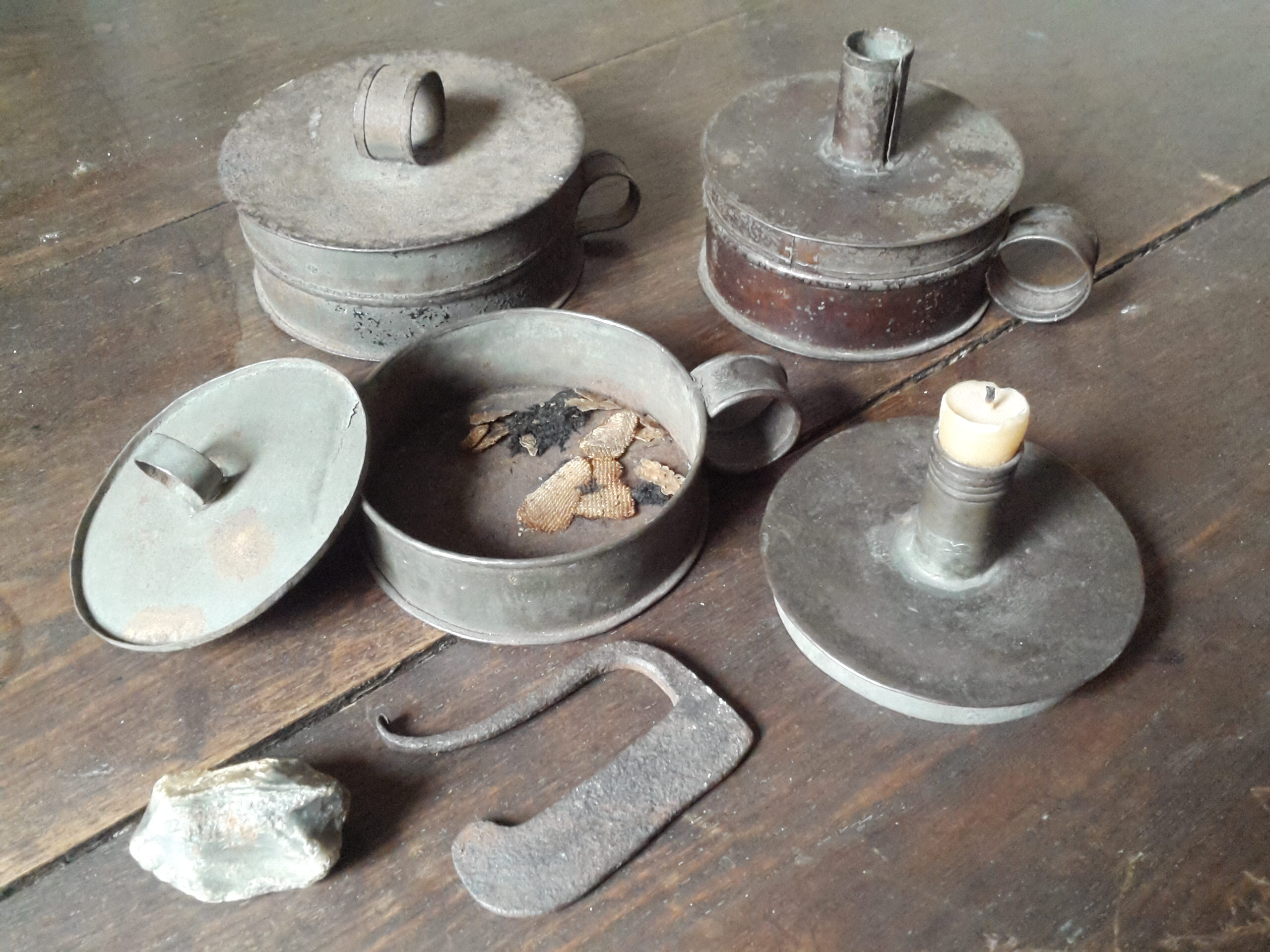 Old tinderboxes Other information From a private collection